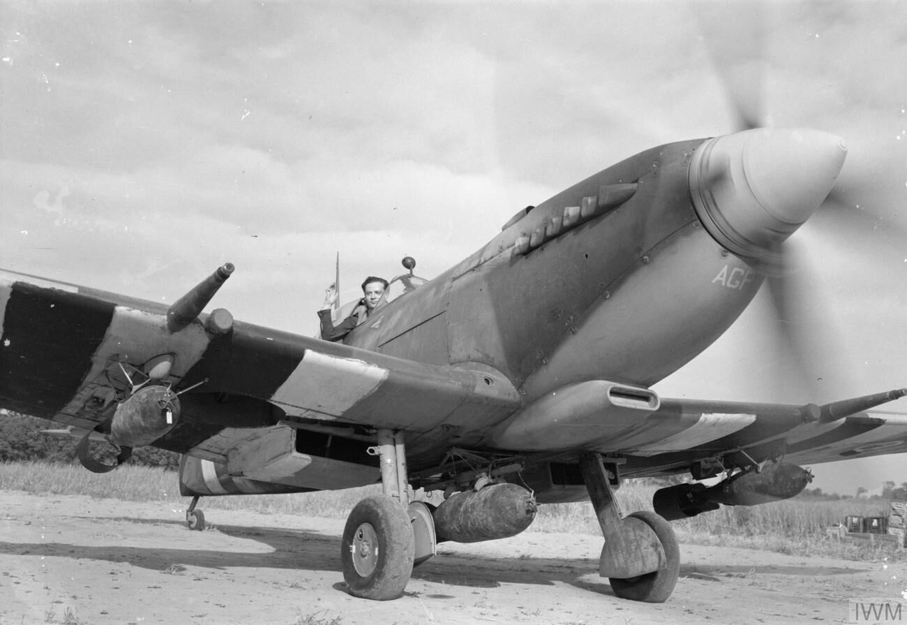 Wing Commander A G Page, commander of 125 Wing, about to take off in his Supermarine Spitfire Mk IXE 'AGP' from Longues, Normandy. A 500-lb GP bomb is carried under the fuselage and two 250-lb GP bombs on wing racks. Later the same day, Page shot down his 14th aircraft, but was wounded and his aircraft damaged.